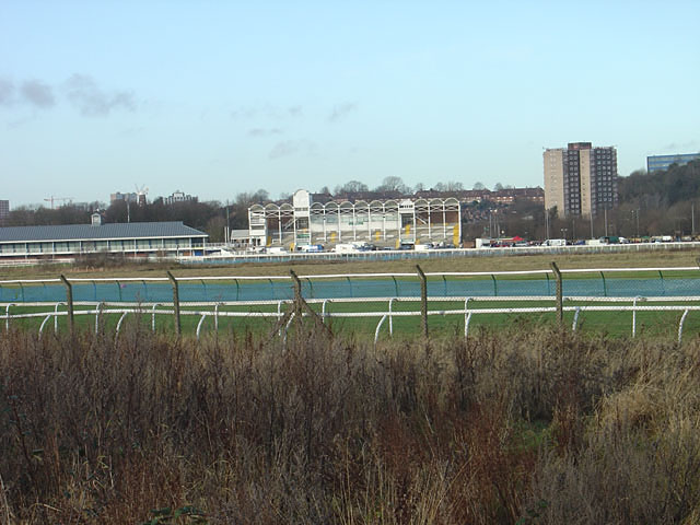 Nottingham Racecourse from the south-east In the background is the modern main grandstand.